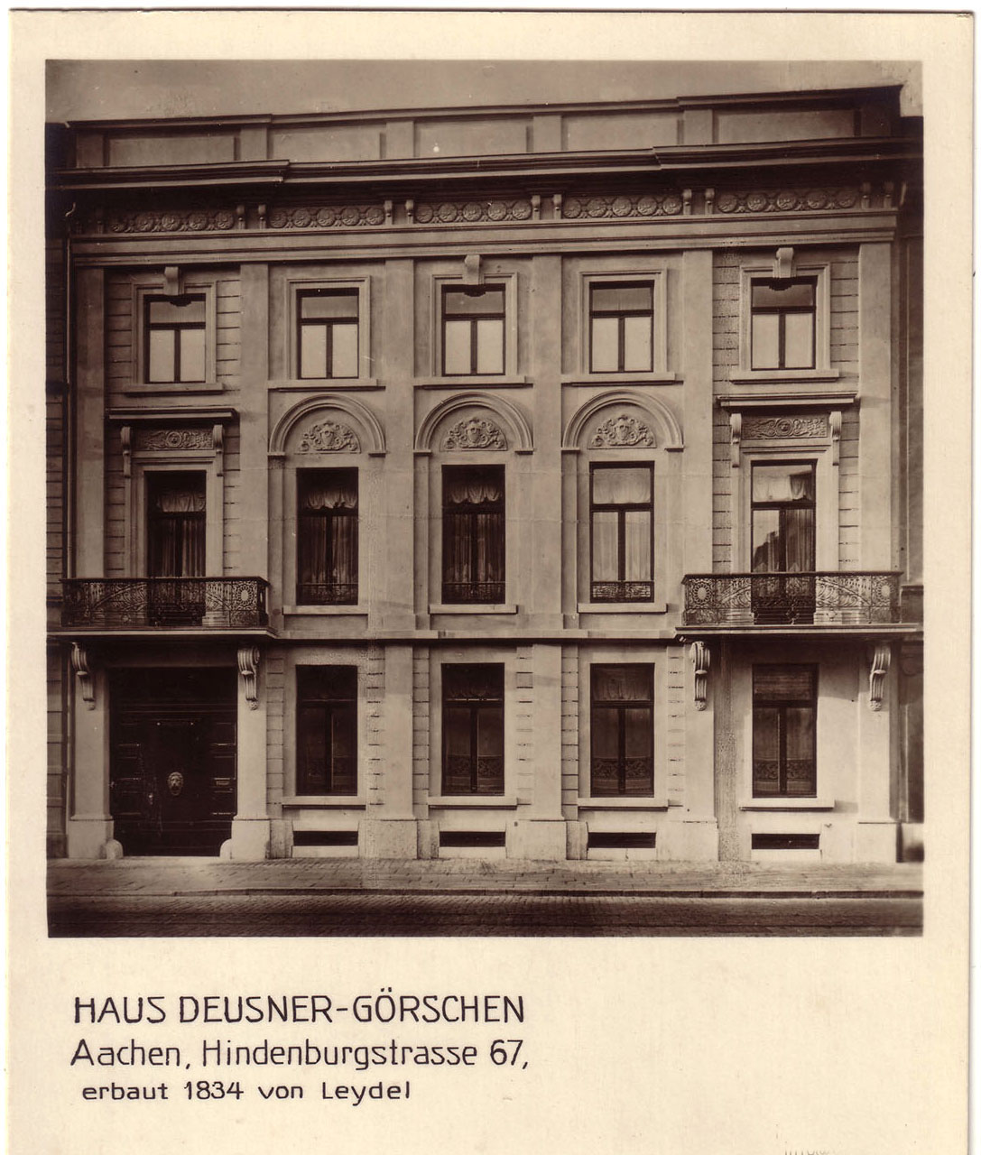 Deusner-Goerschen Building in Aachen/Germany, architect 1834 was Adam Franz Friedrich Leydel